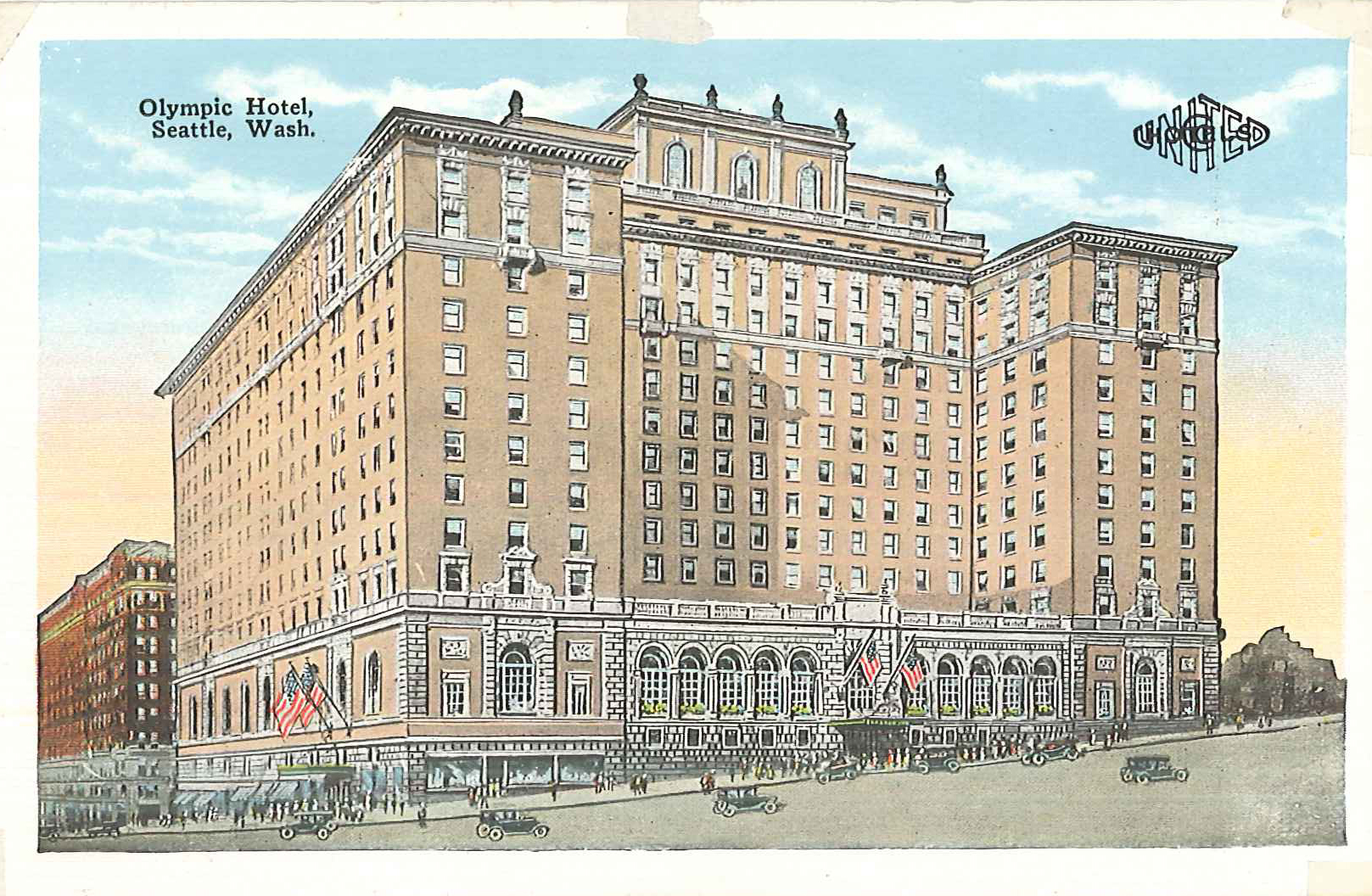 Olympic Hotel, Seattle, Washington, circa 1925 Postcard collection (Record Series 9901-01), Seattle Municipal Archives.